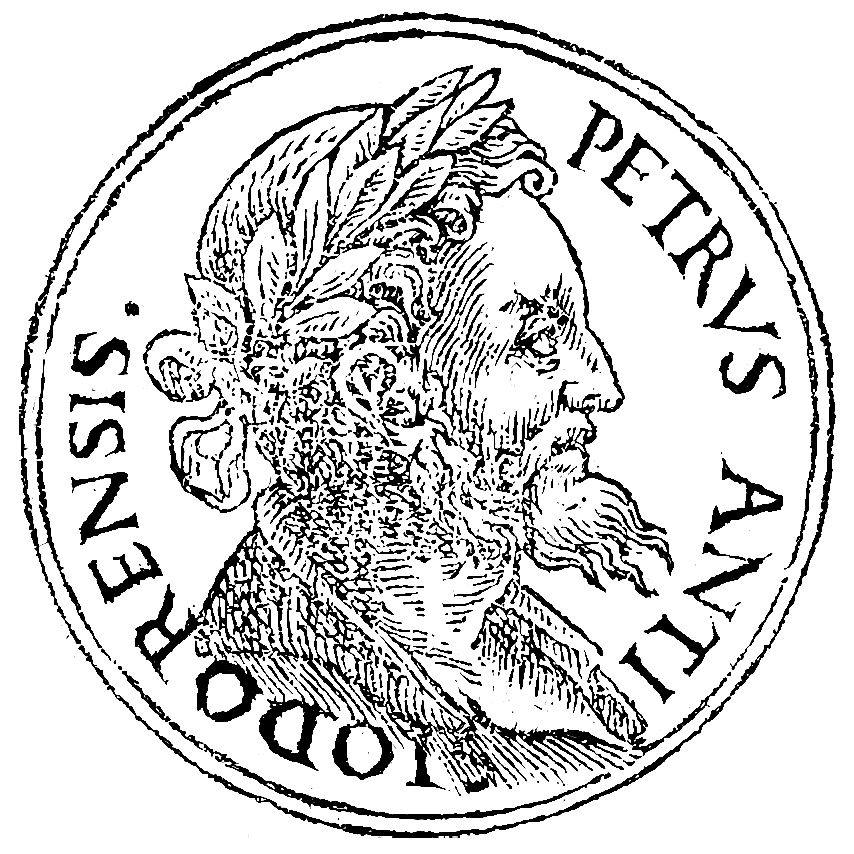 Peter II of Courtenay was emperor of the Latin Empire of Constantinople from 1216-1217.